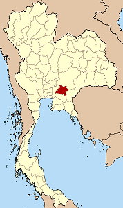 Map of Thailand highlighting Prachinburi province